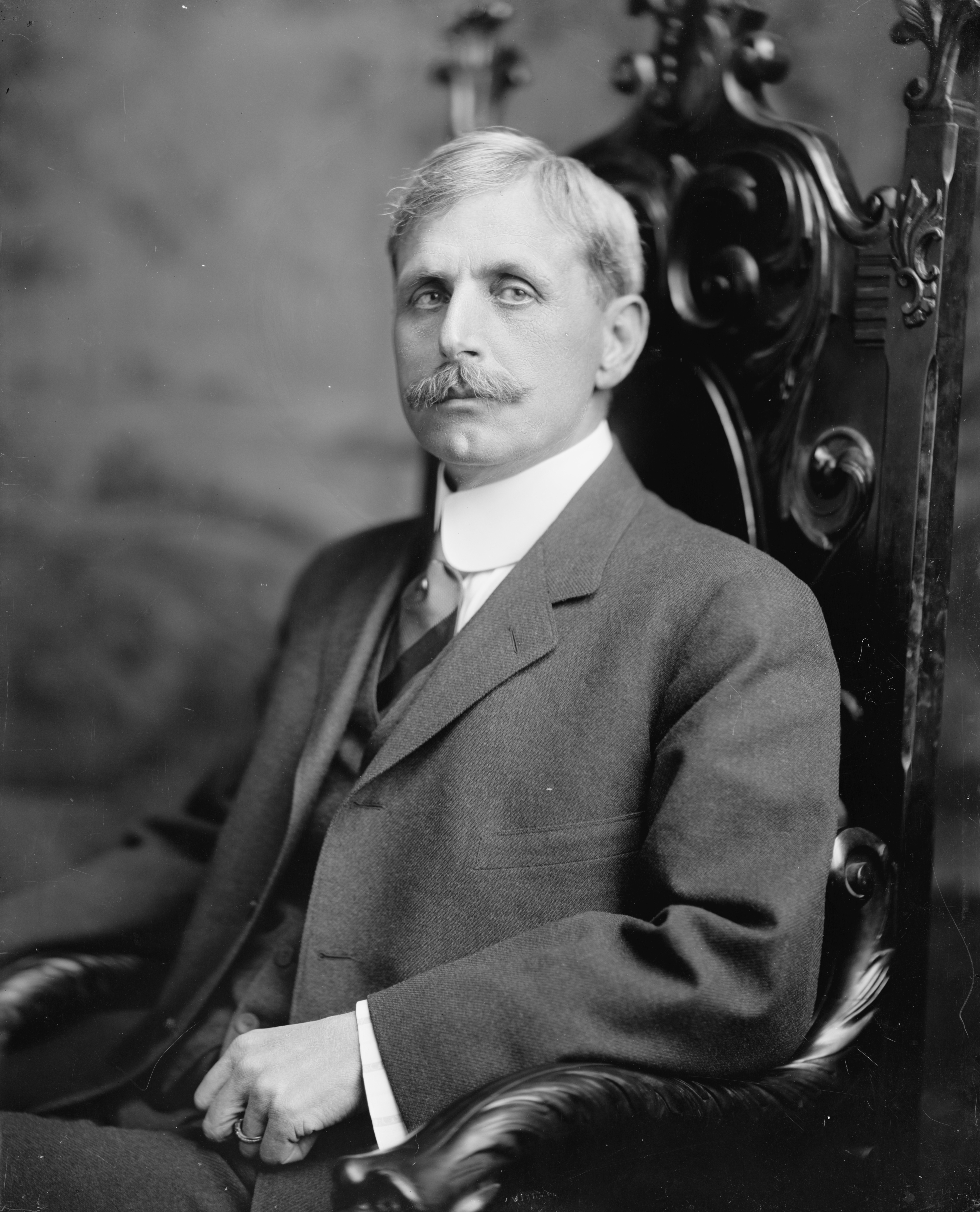 Title: McLEAN, GEORGE P. HONORABLE Abstract/medium: 1 negative : glass ; 8 x 10 in. or smaller